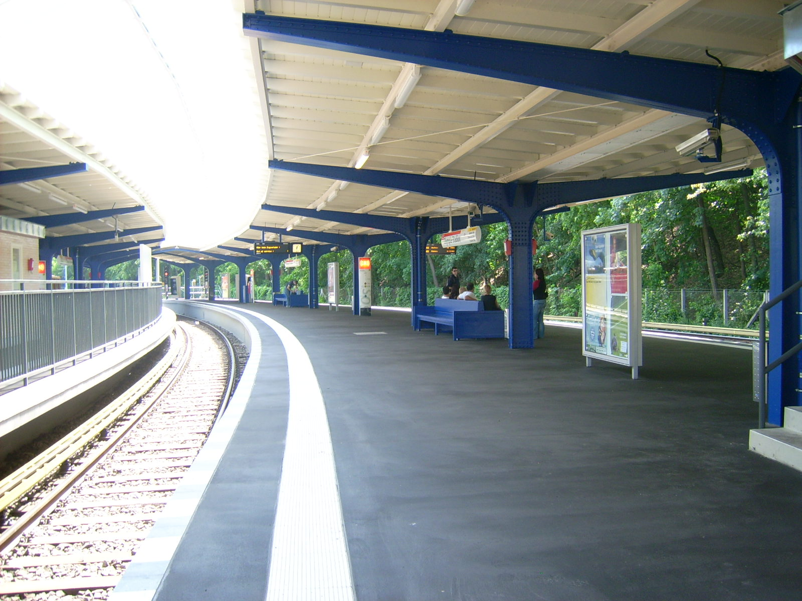 The Berlin U-Bahn station Olympia-Stadion, line U2